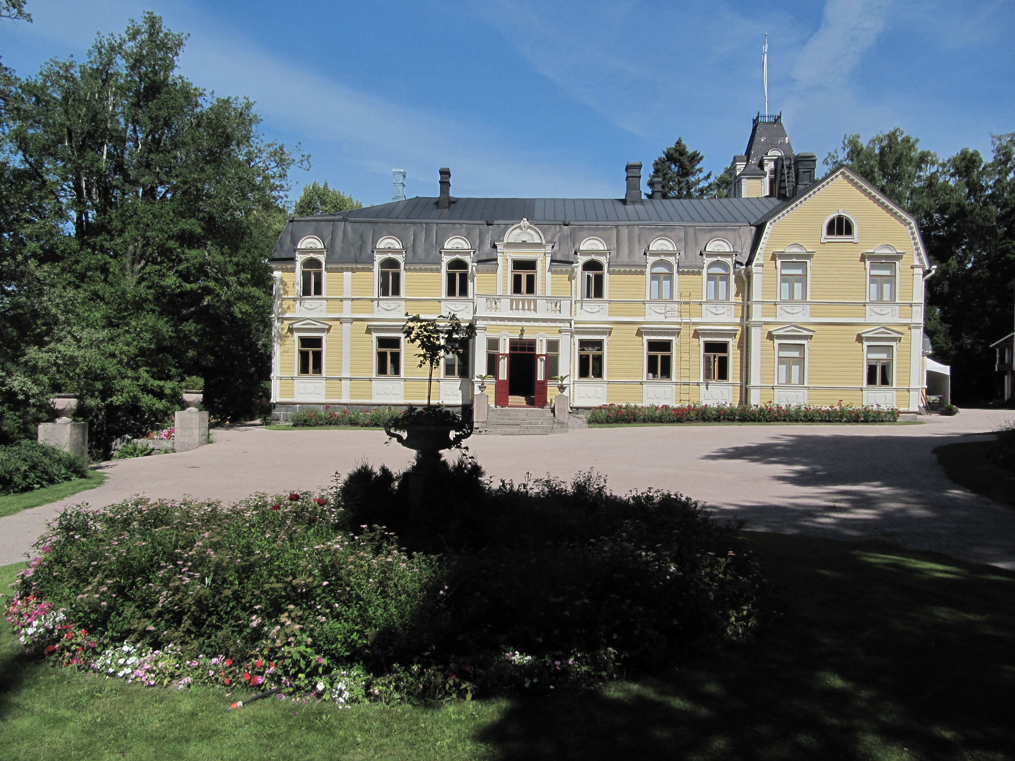 Pyhäniemi Manor main building in Hollola, Finland.